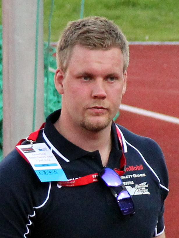 Eivind Henriksen at 2012 Bislett Games